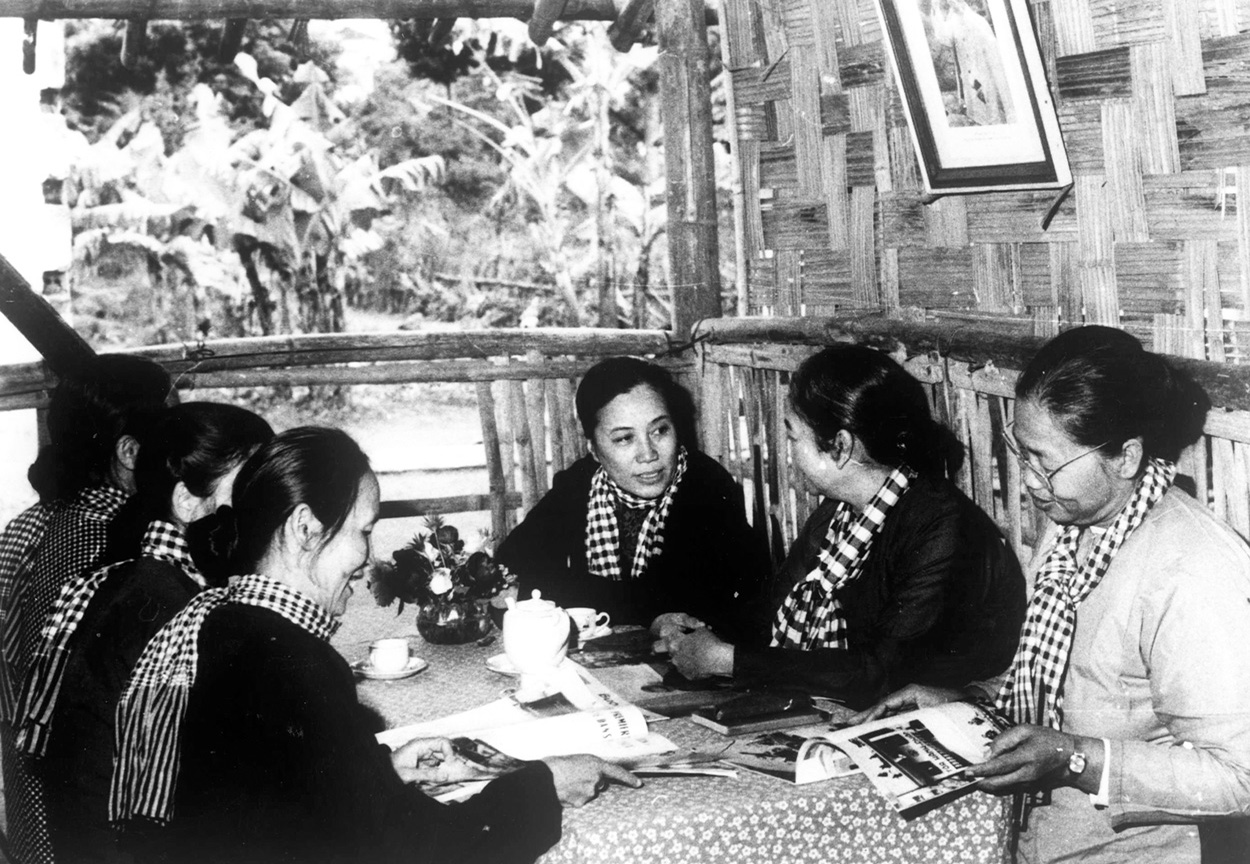 Photo of Nguyen Thi Binh, to Foreign Minister of the National Liberation Front, and Nguyen Thi Dinh, the highest-ranking female General.